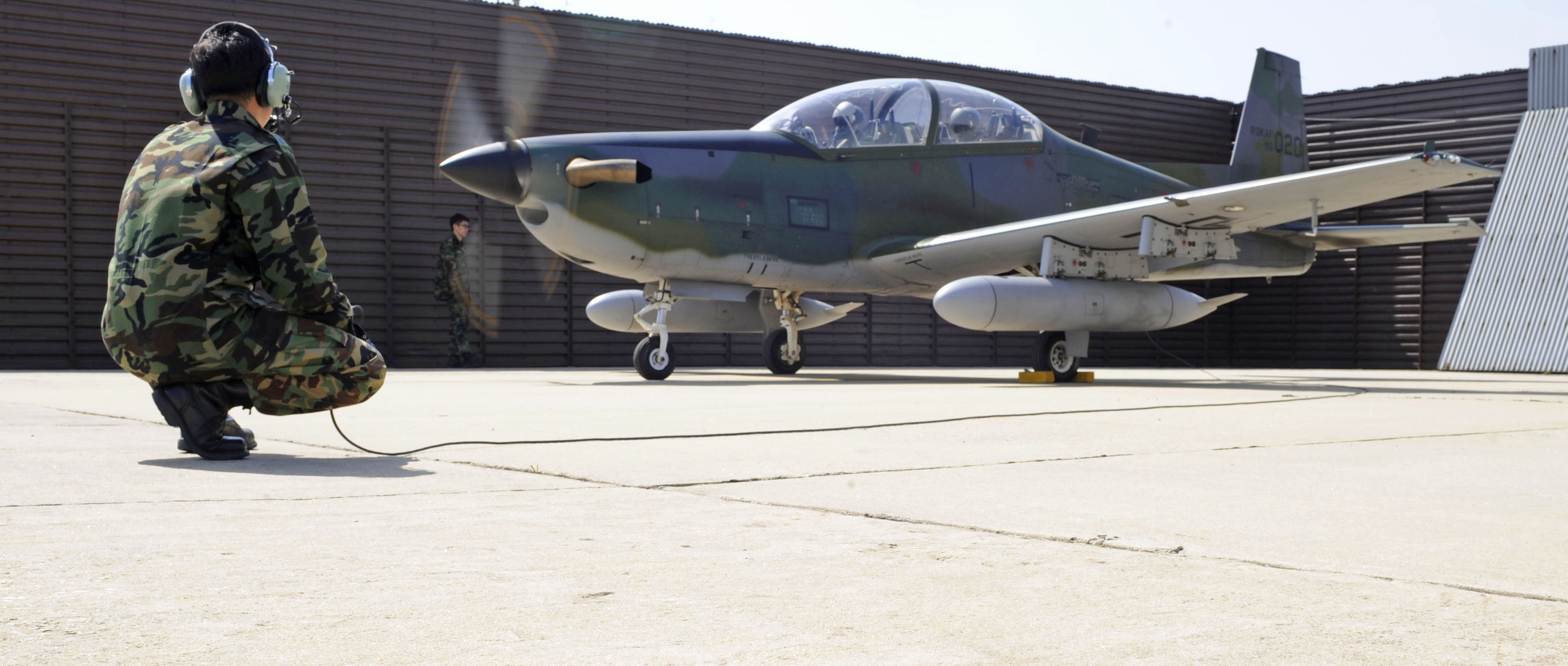 Republic of Korea Air Force Major Jwa-Ryong Park prepares to take off in his KAI KA-1 aircraft on 15 April 2010 at Osan Air Base, South Korea. Major Park was the 237th Tactical Fighter Squadron intelligence commander.